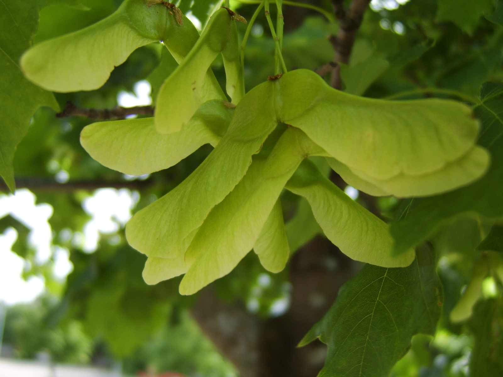 Norway Maple tree seeds.